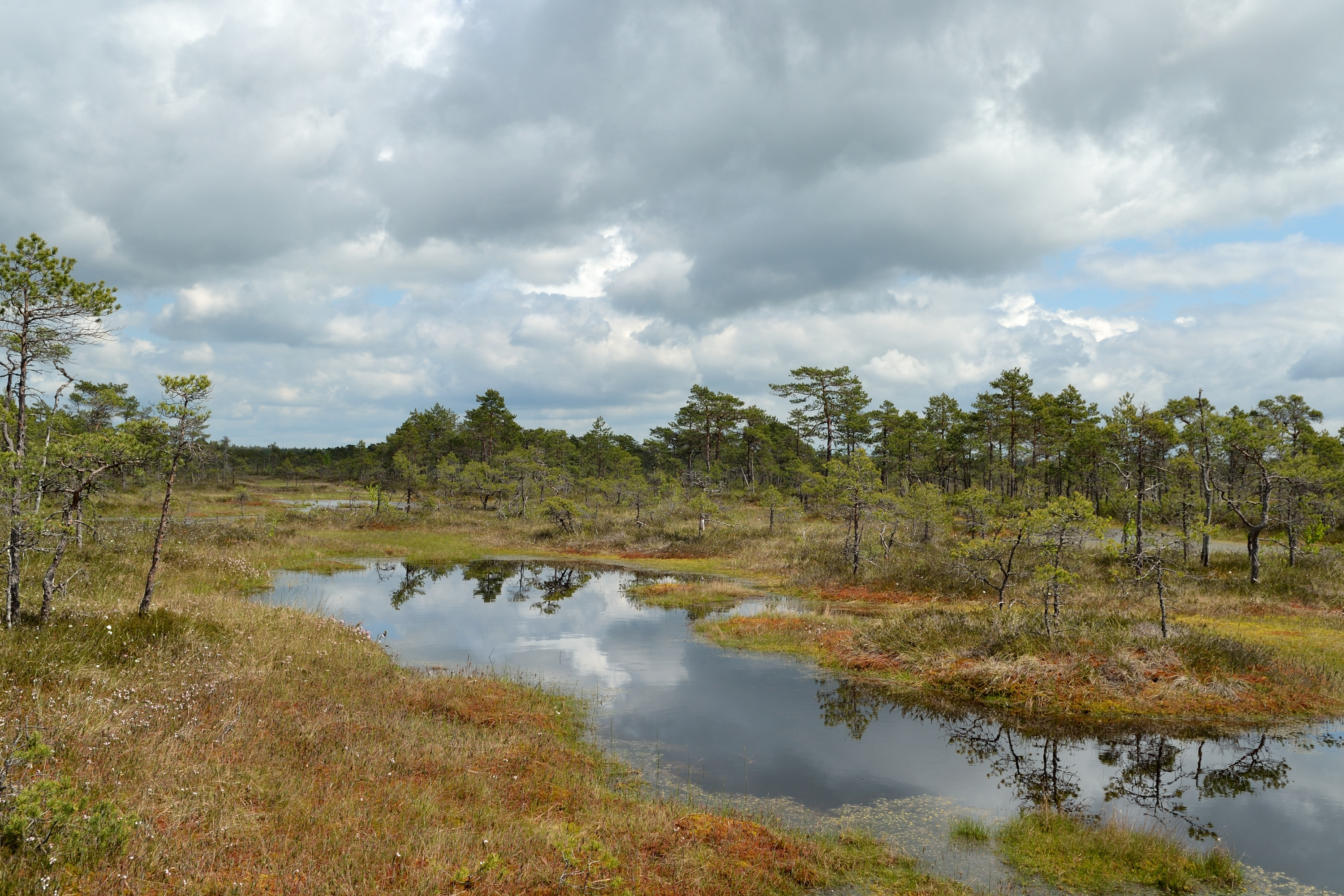 Kaasikjärve bog